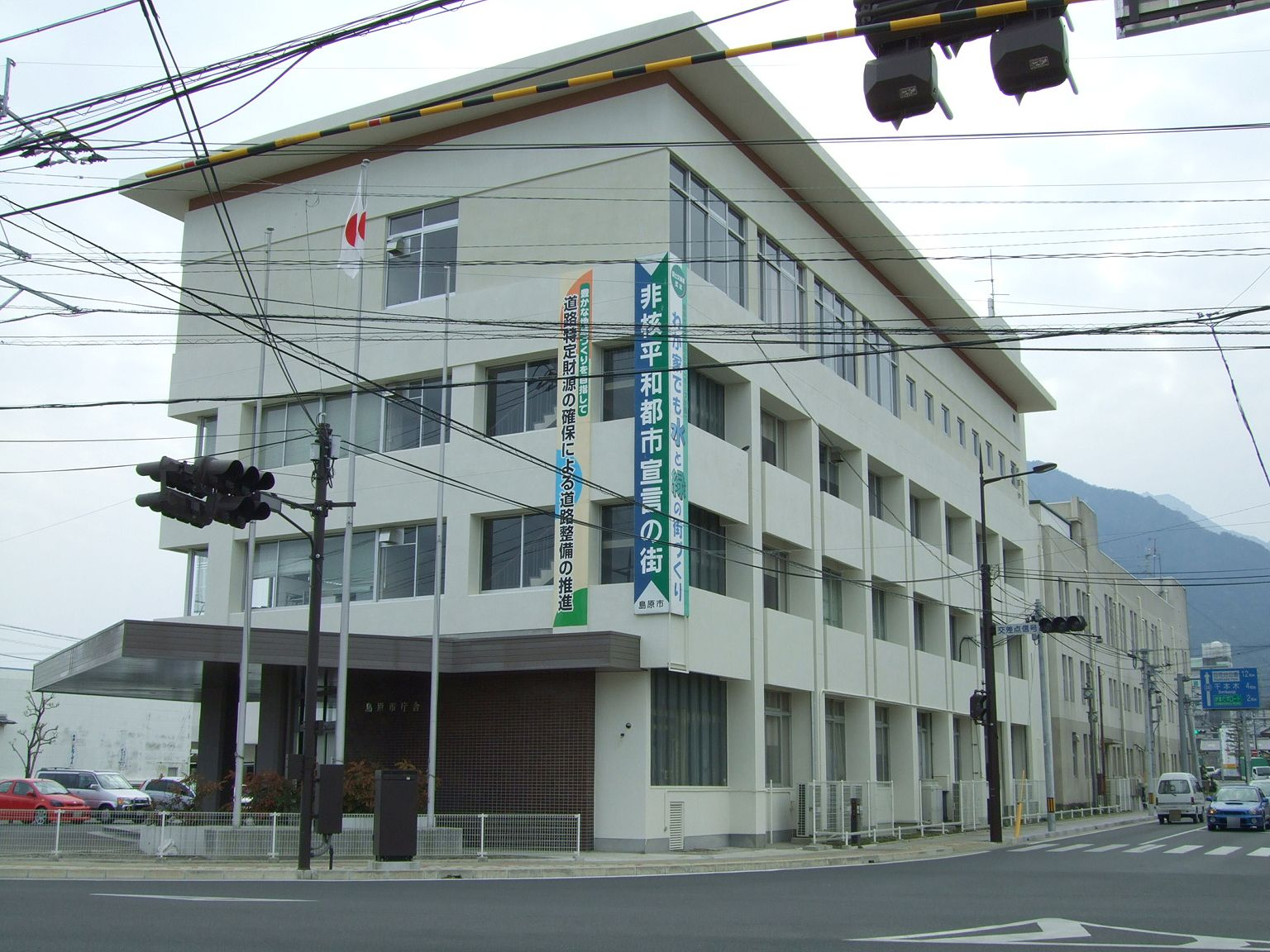 Shimabara City Hall